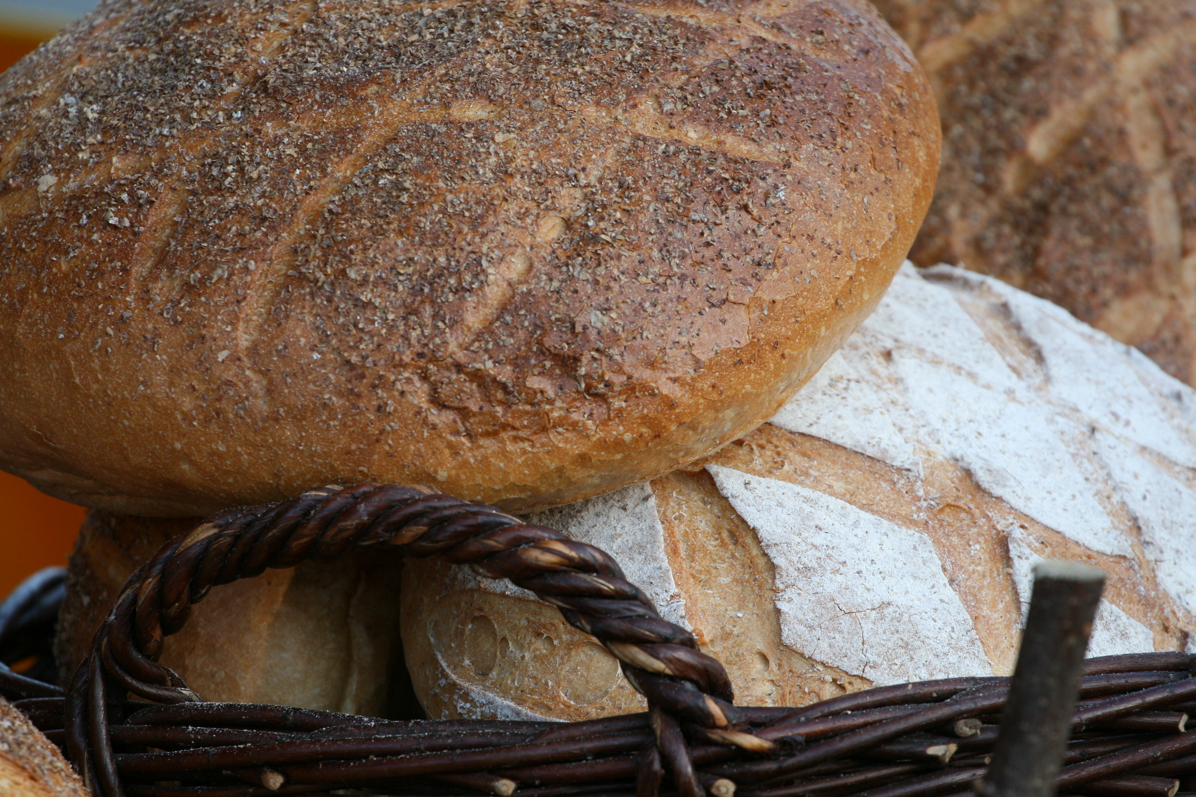 Tradicional Polish bread served during "The picnic at the Oder River" (May 2008, Szczecin, Poland)